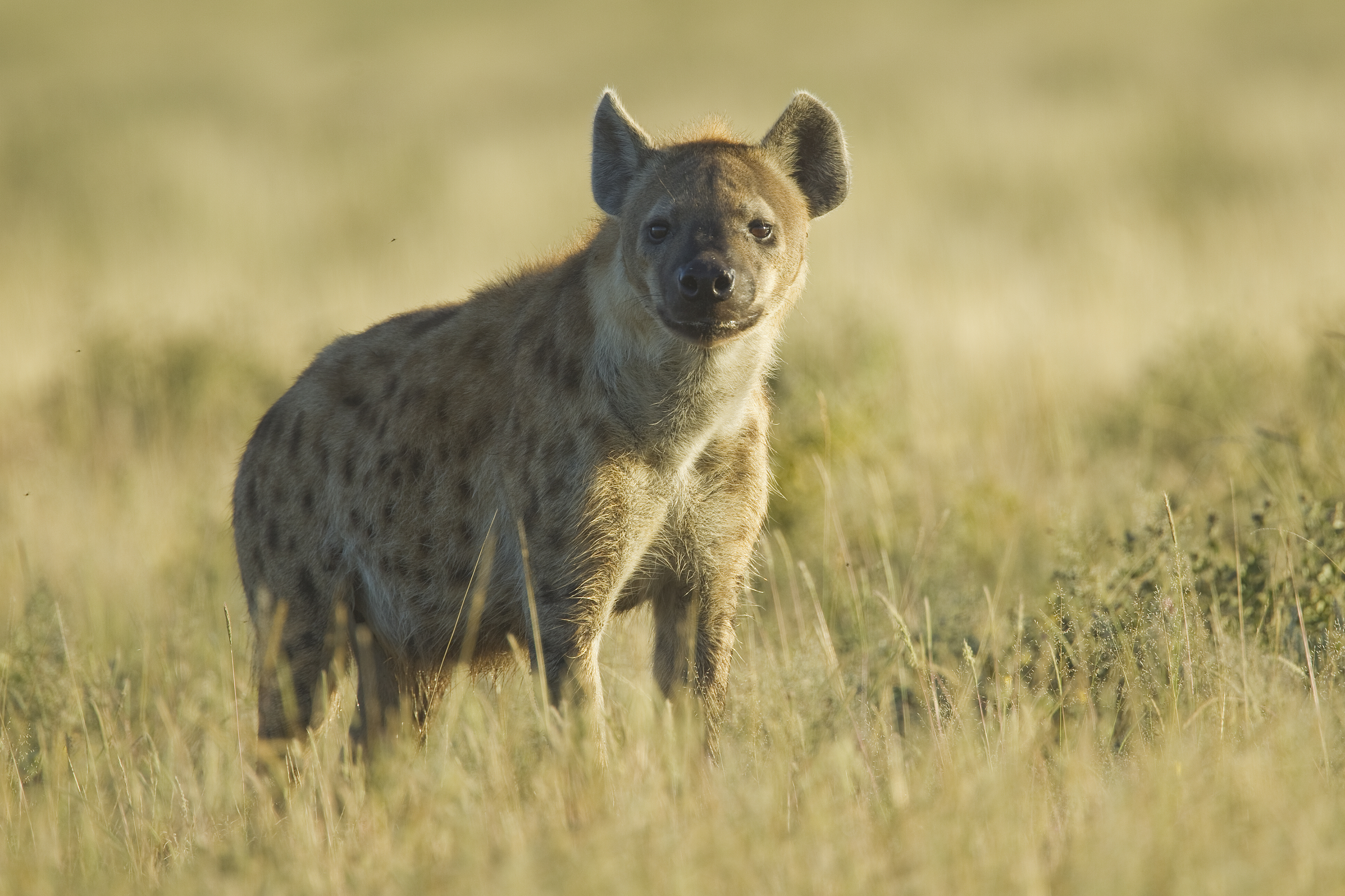 Adult spotted hyena (Crocuta crocuta) in Etosha National Park